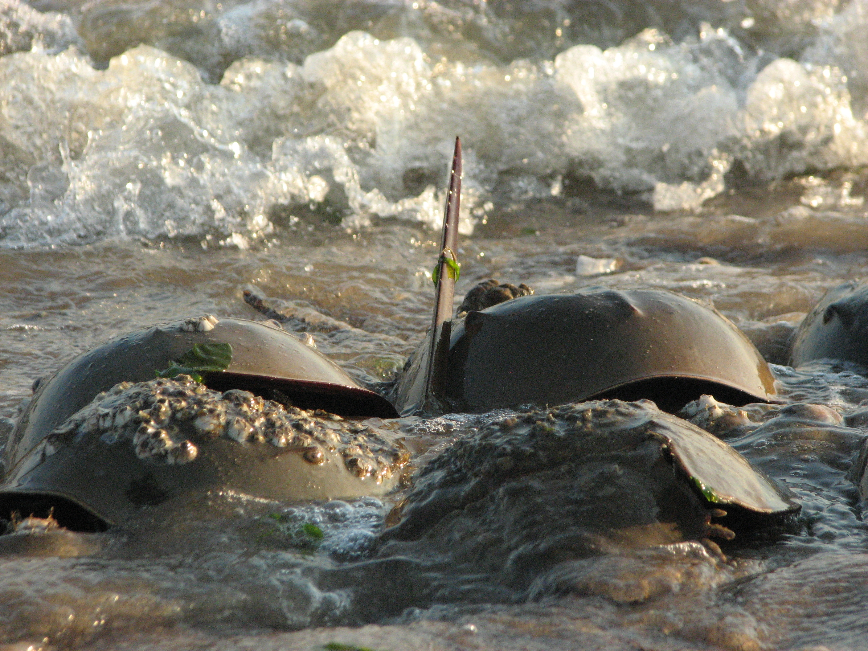 Several horseshoe crabs on the shore of Plumb Beach, Brooklyn, New York.